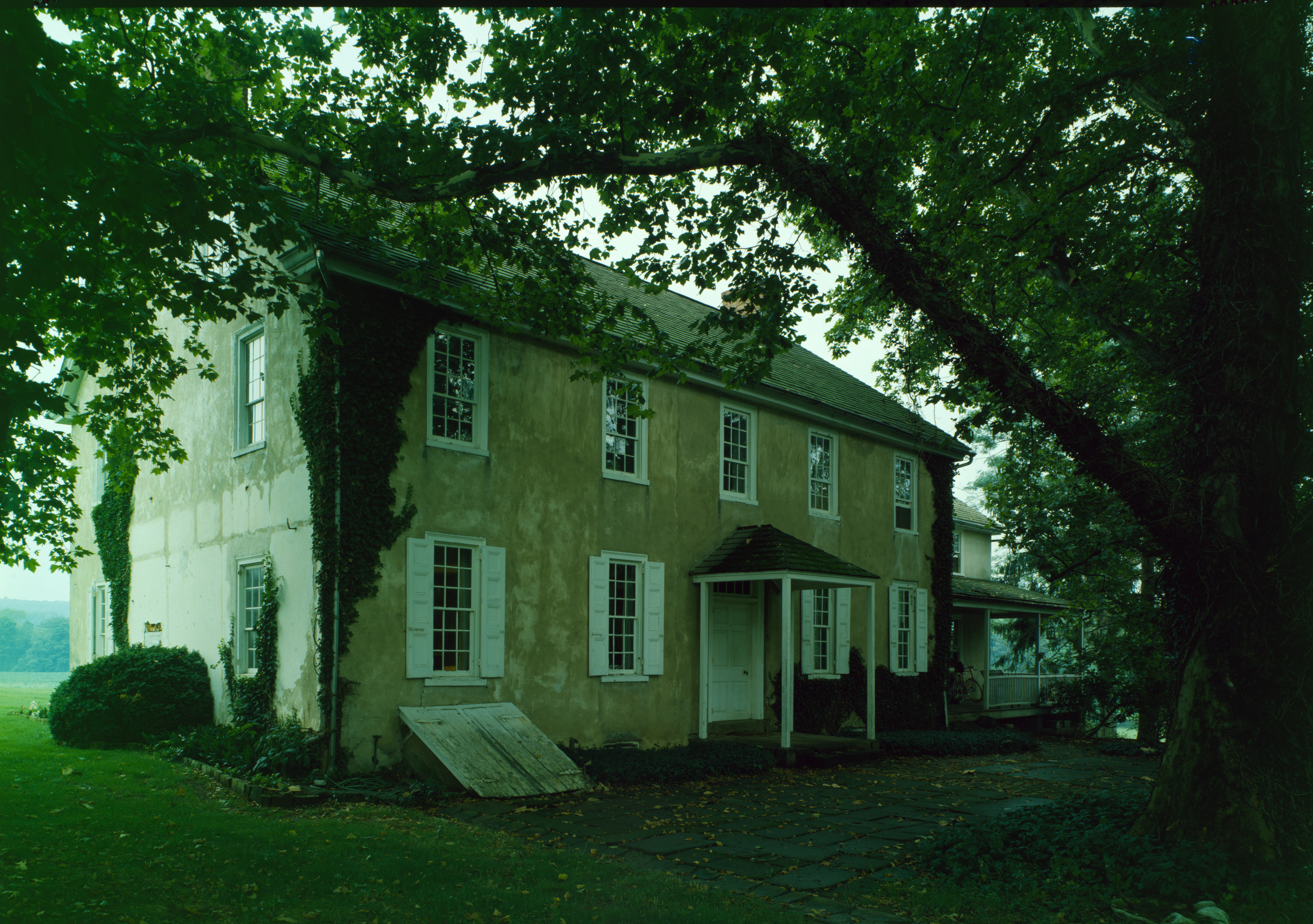 General view - Lundale Farm, House, State Route 100 (South Coventry Township), Pughtown, Chester County, PA